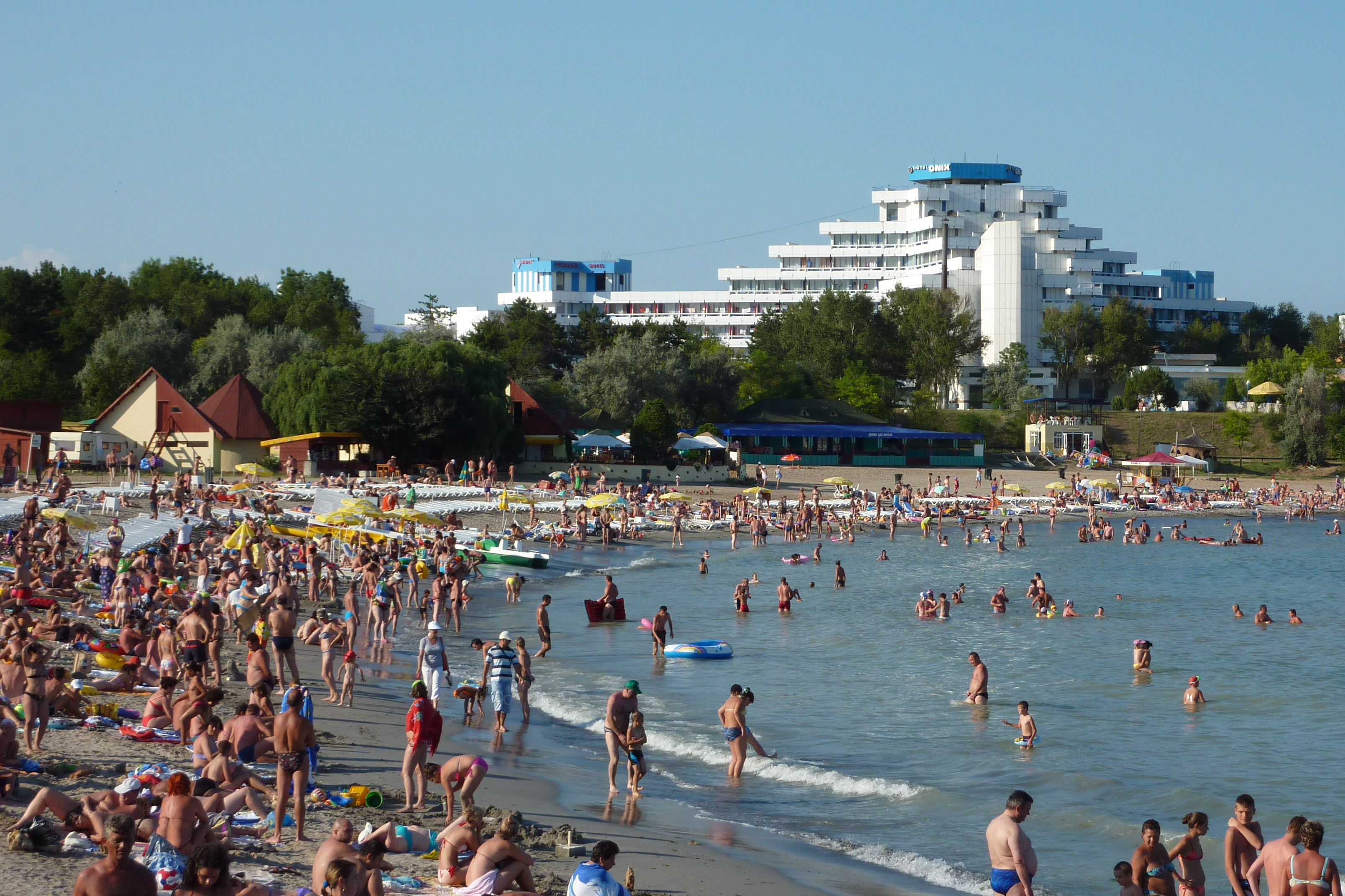 The beach at the seaside resort, Venus, Romania. In the background, Hotel Onix in Cap Aurora.